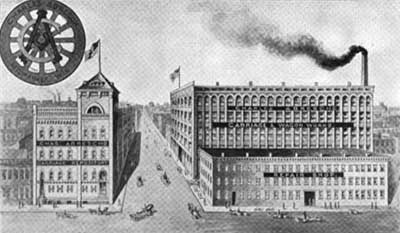 Charles Abresch Co., Nos. 407 to 415 Poplar Street, and Nos. 392 to 398 Fourth Street (later renumbered to 1242, 1246, 1254 N. 4th St.) in 1896. The Company was mentioned in 1895 as "Builders of Fine Delivery, Express and Truck Wagons". This plant was destroyed by a fire, 13 April, 1898.